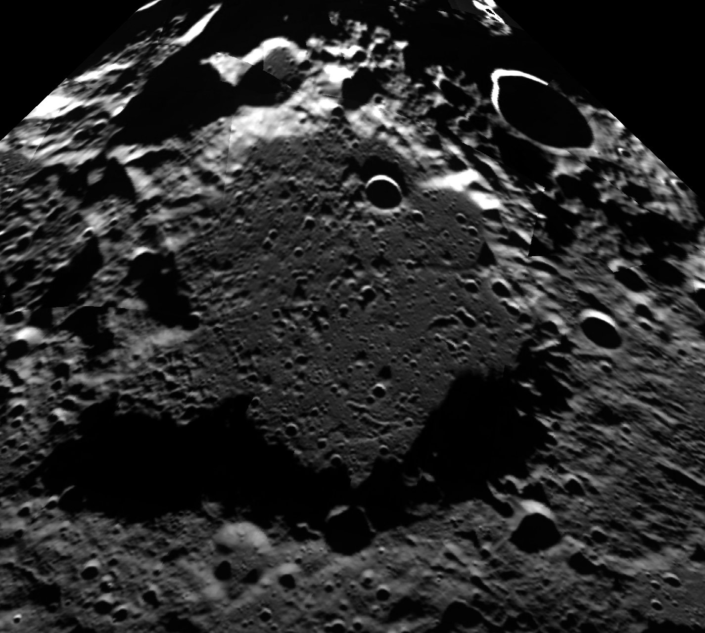 Image of moon crater Hermite from Clementine b/w data